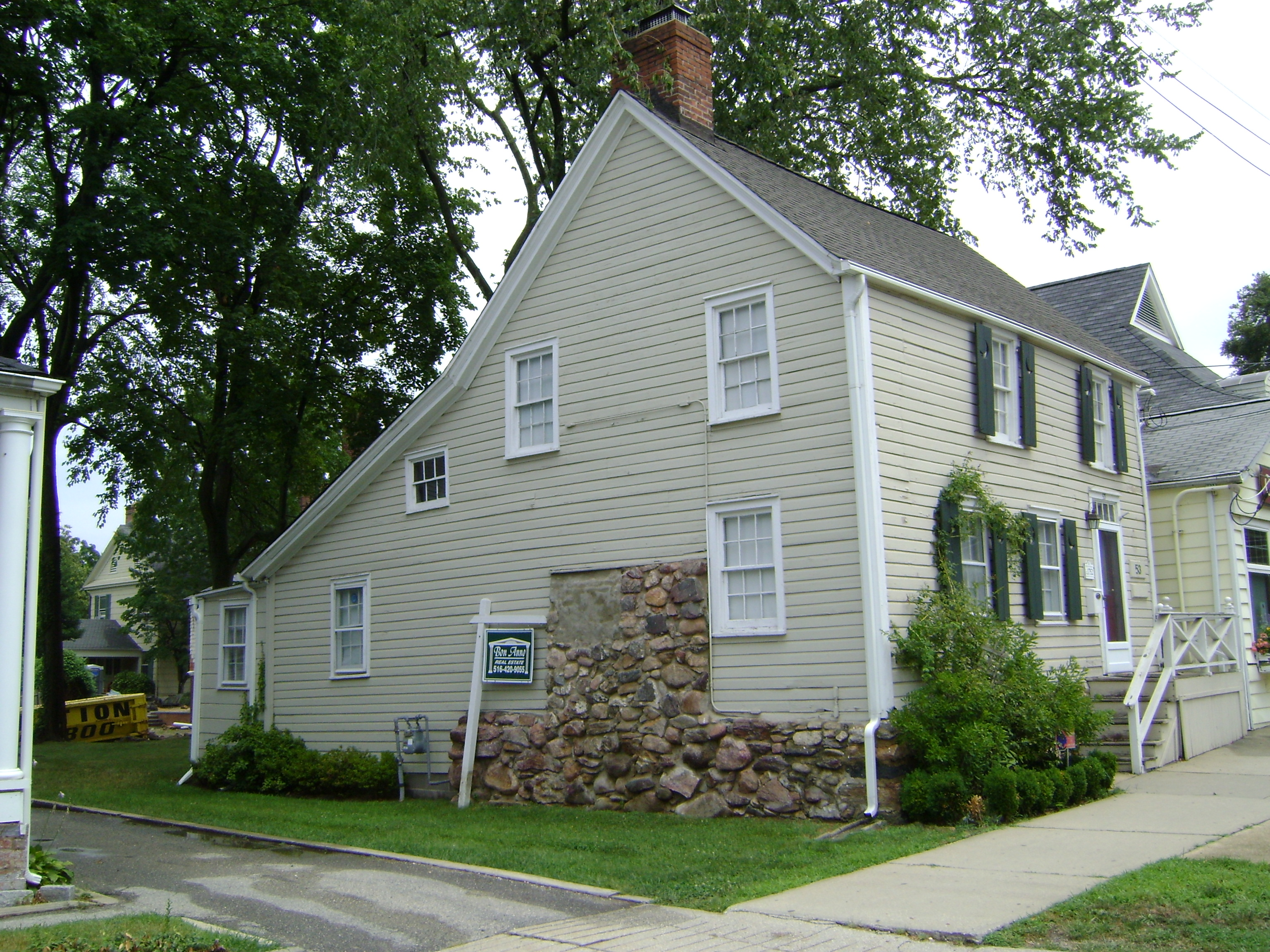 Photo of the Wilson House showing west and south exposures.